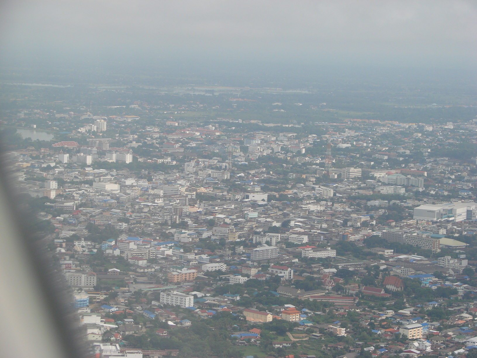 Aerial view of Udon Thani City